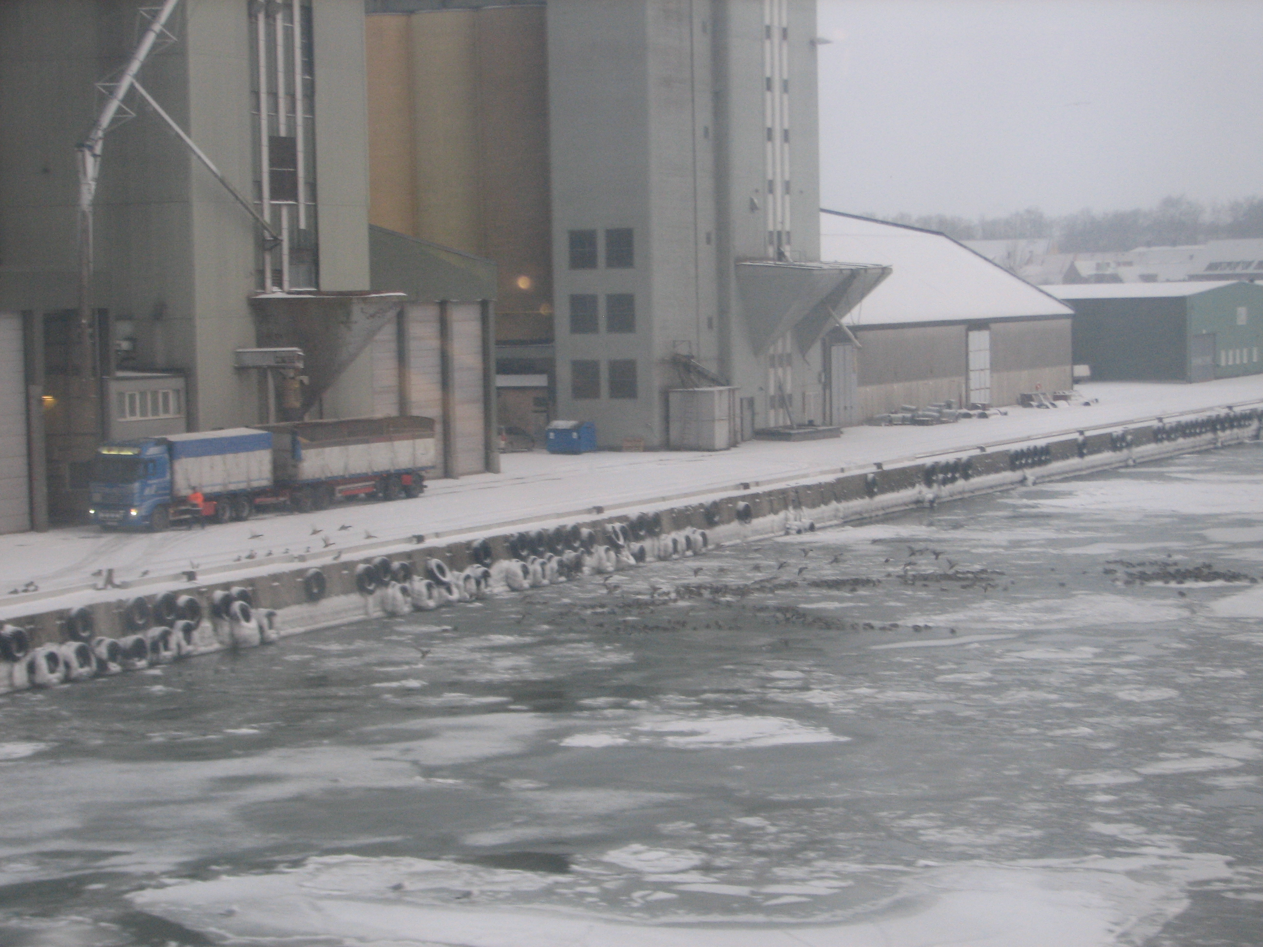 Harbour of Ystad iced over